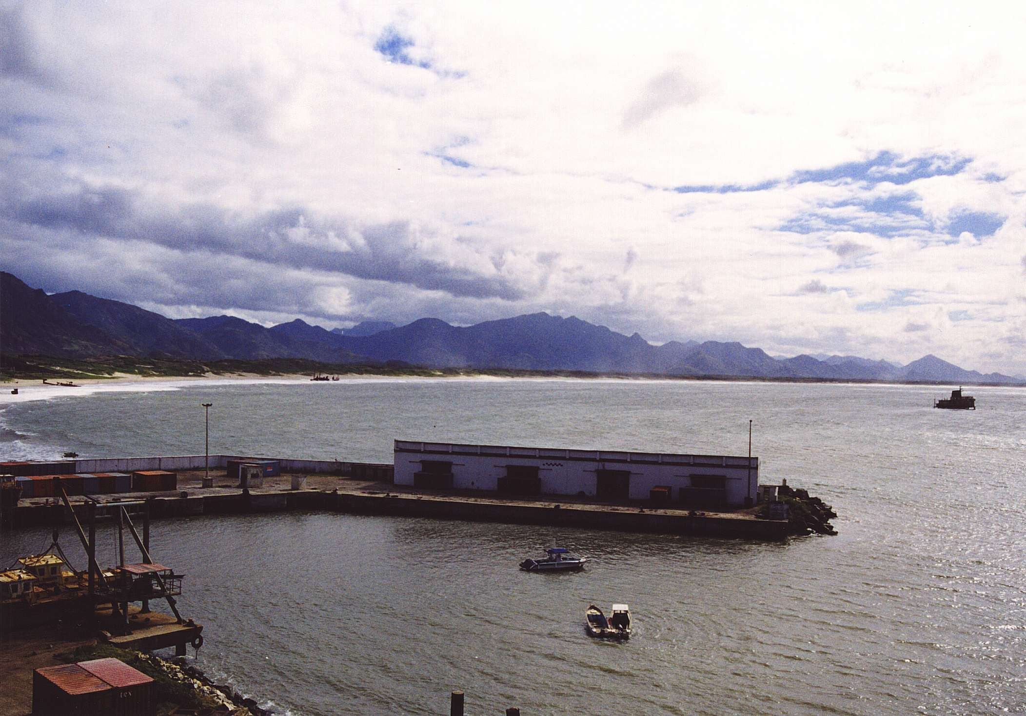 Port of Fort Dauphin, Madagascar